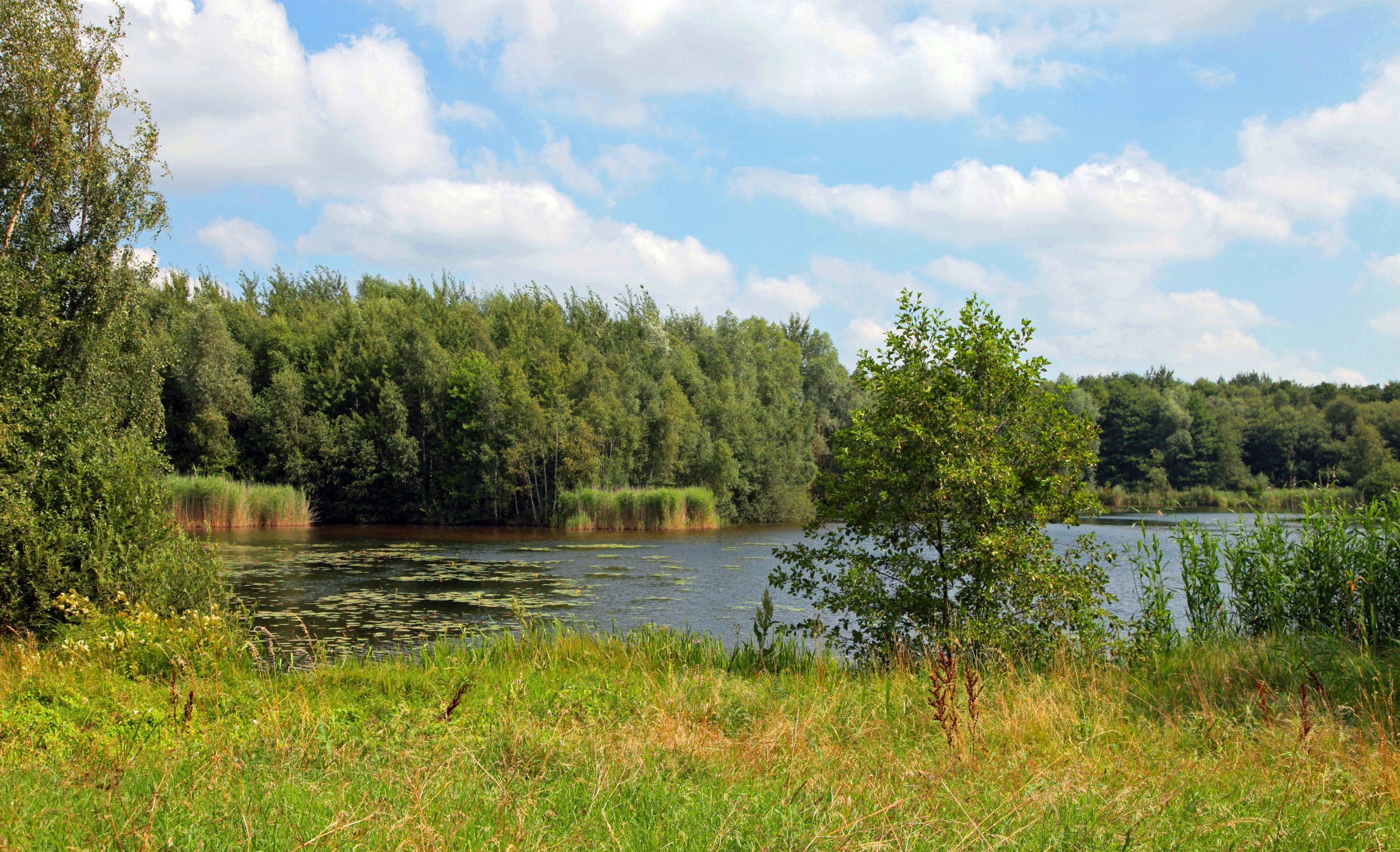 Lake near Bremen it called Grambker Feldmarksee